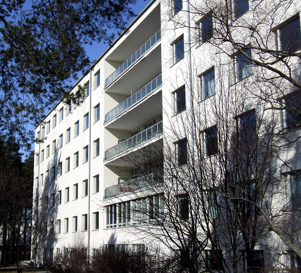 The City Hospital in Kontinkangas in Oulu, Finland. The building was designed by architect Uno Ullberg (1938)